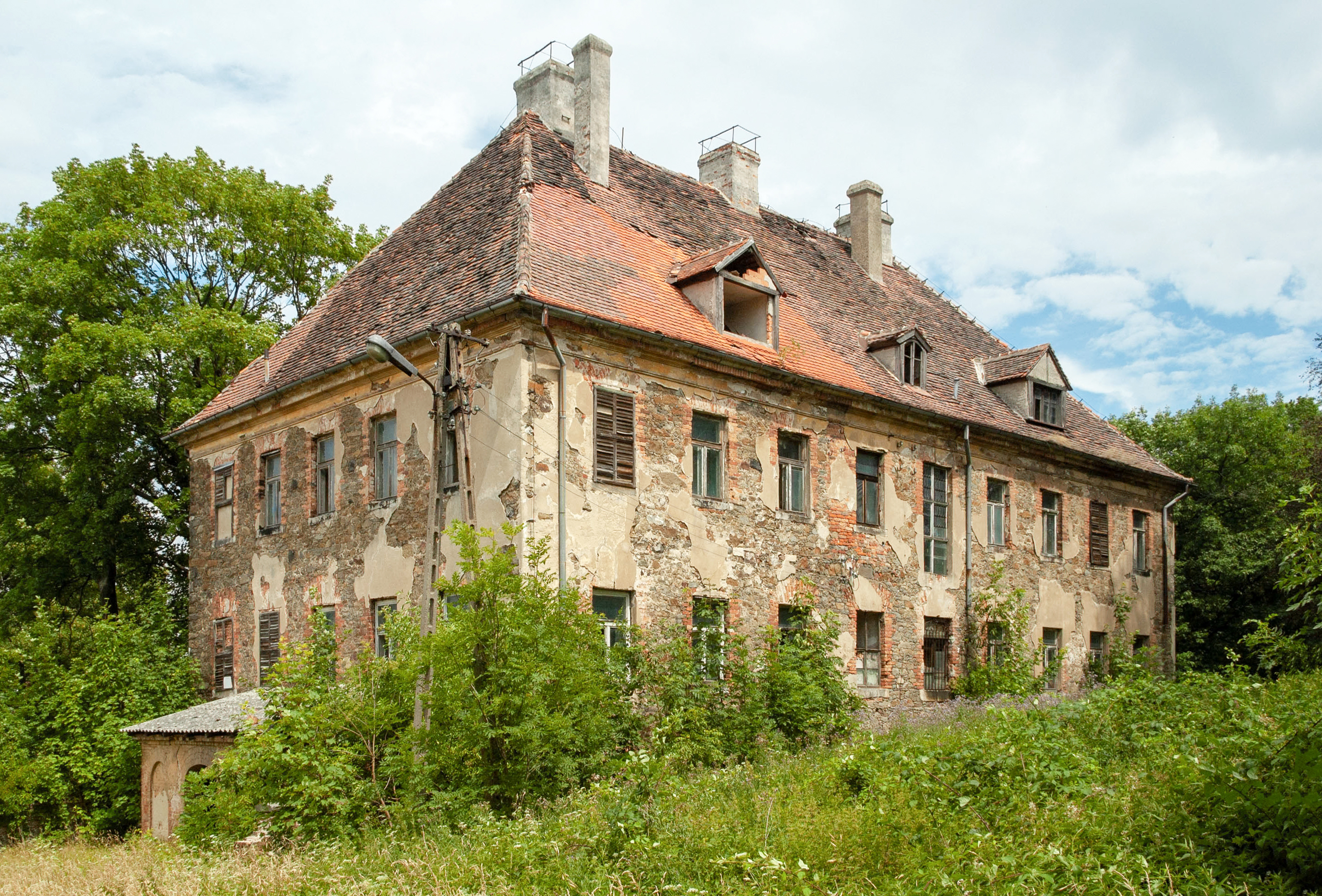 This photograph was created as a part of Wikiexpedition Lower Silesia, a project supported by Wikimedia Poland grant.